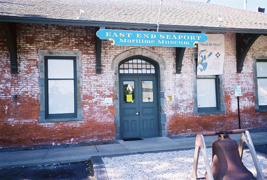 Photo of the entrance to the Old Greenport Station, which is now the East End Seaport Maritime Museum. Taken by me on July 1, 2007.